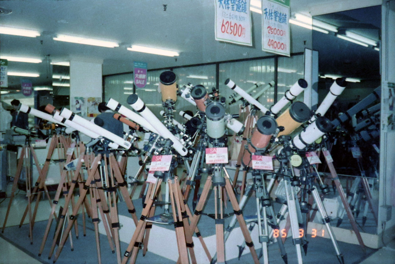 望遠鏡販売店に並ぶミザール望遠鏡の様子。